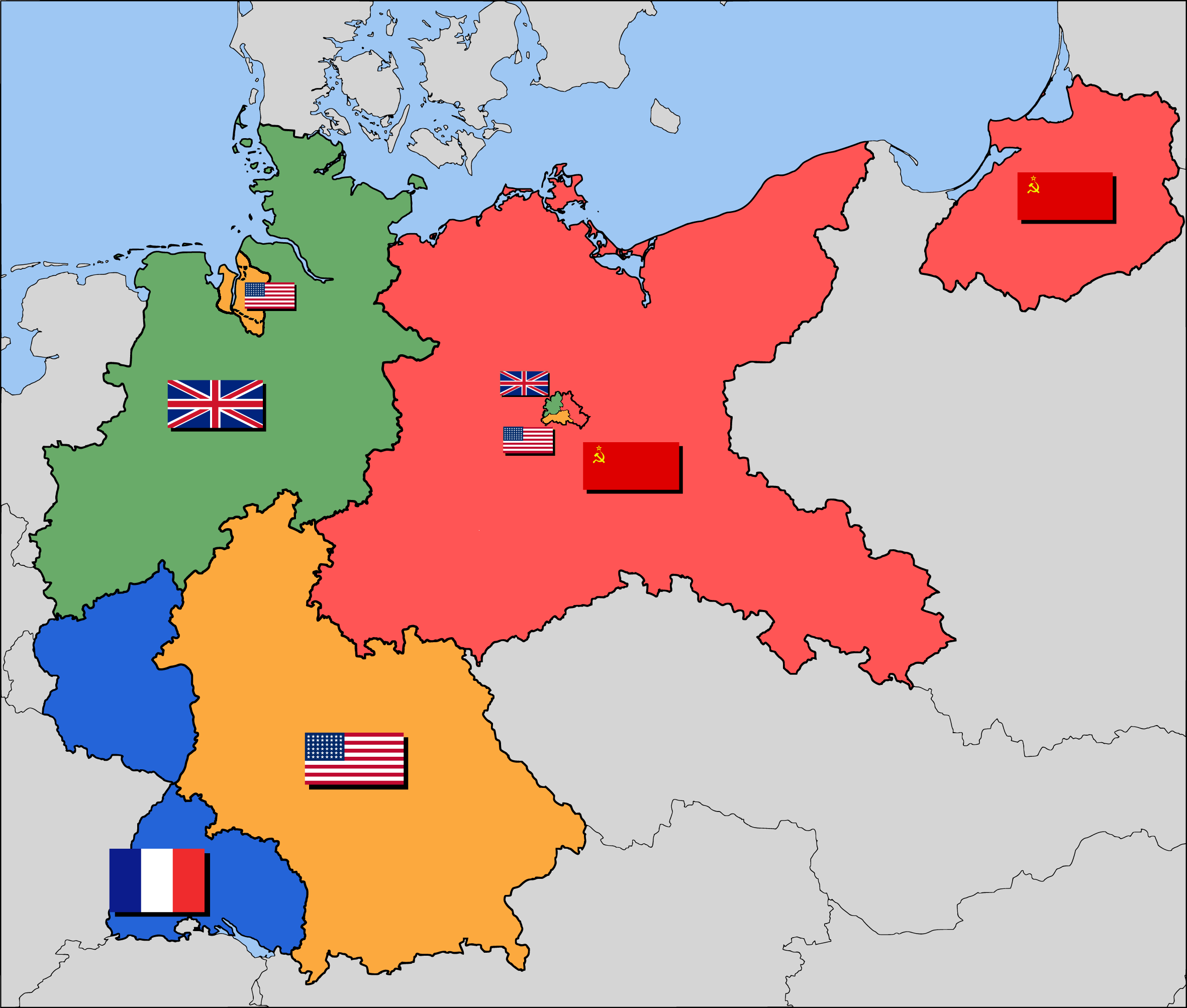 Occupation zone borders in Germany, 1945. The territories east of the Oder-Neisse line, under Polish and Soviet administration/annexation, are shown as white. Berlin is the multinational area within the Soviet zone.